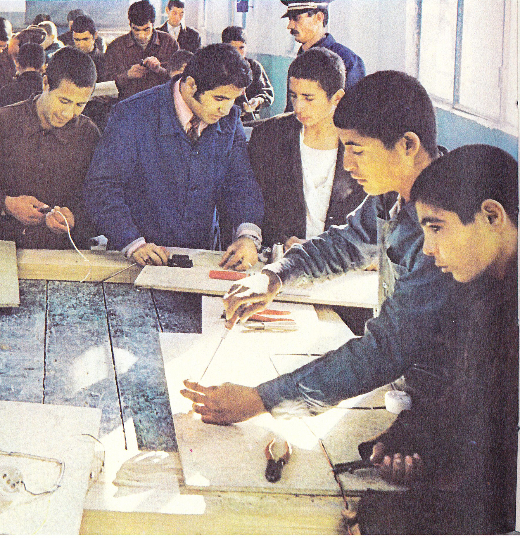 vocational education at Kanun-e Kaaramuzi-e Keshvar, 1970